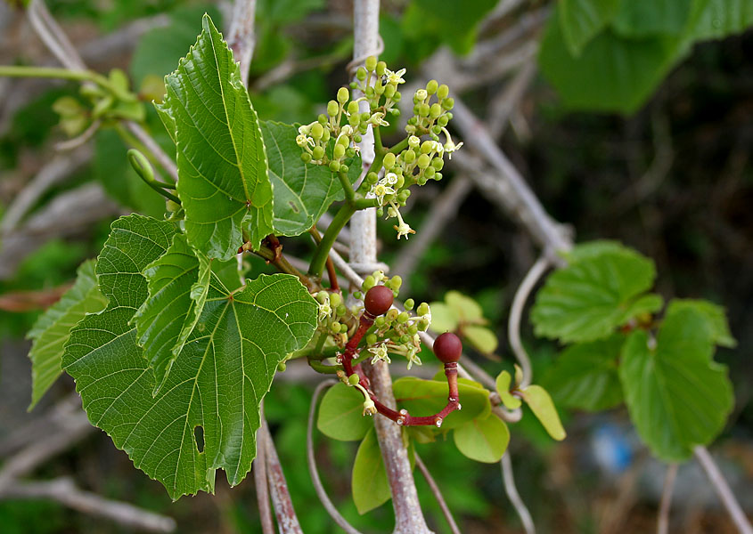 Woodrow's Grape Tree • Marathi: गिरणूळ girnul Cissus woodrowii in Keesara, Rangareddy district, Andhra Pradesh, India.